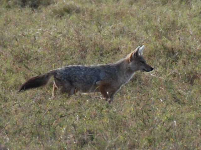 Golden jackal. Ngorongoro crater, Tanzania. Photo by Lee R. Berger. Commons:Category:Canis aureus